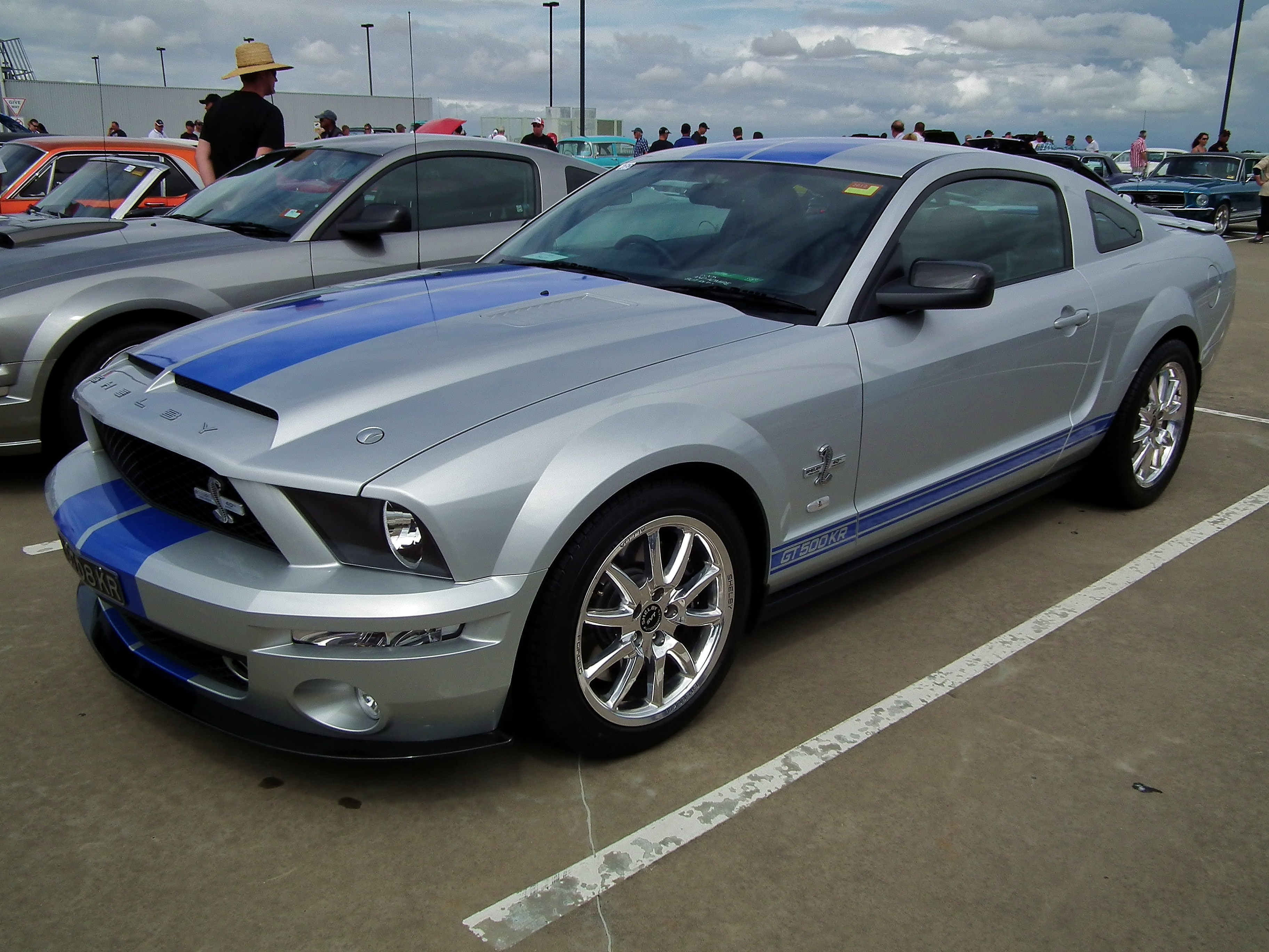 2008 Ford Mustang Shelby GT500KR 40th Anniversary coupe. Taken at the 2012 New South Wales All American Day, held at Castle Towers Shopping Centre, Castle Hill, Sydney.